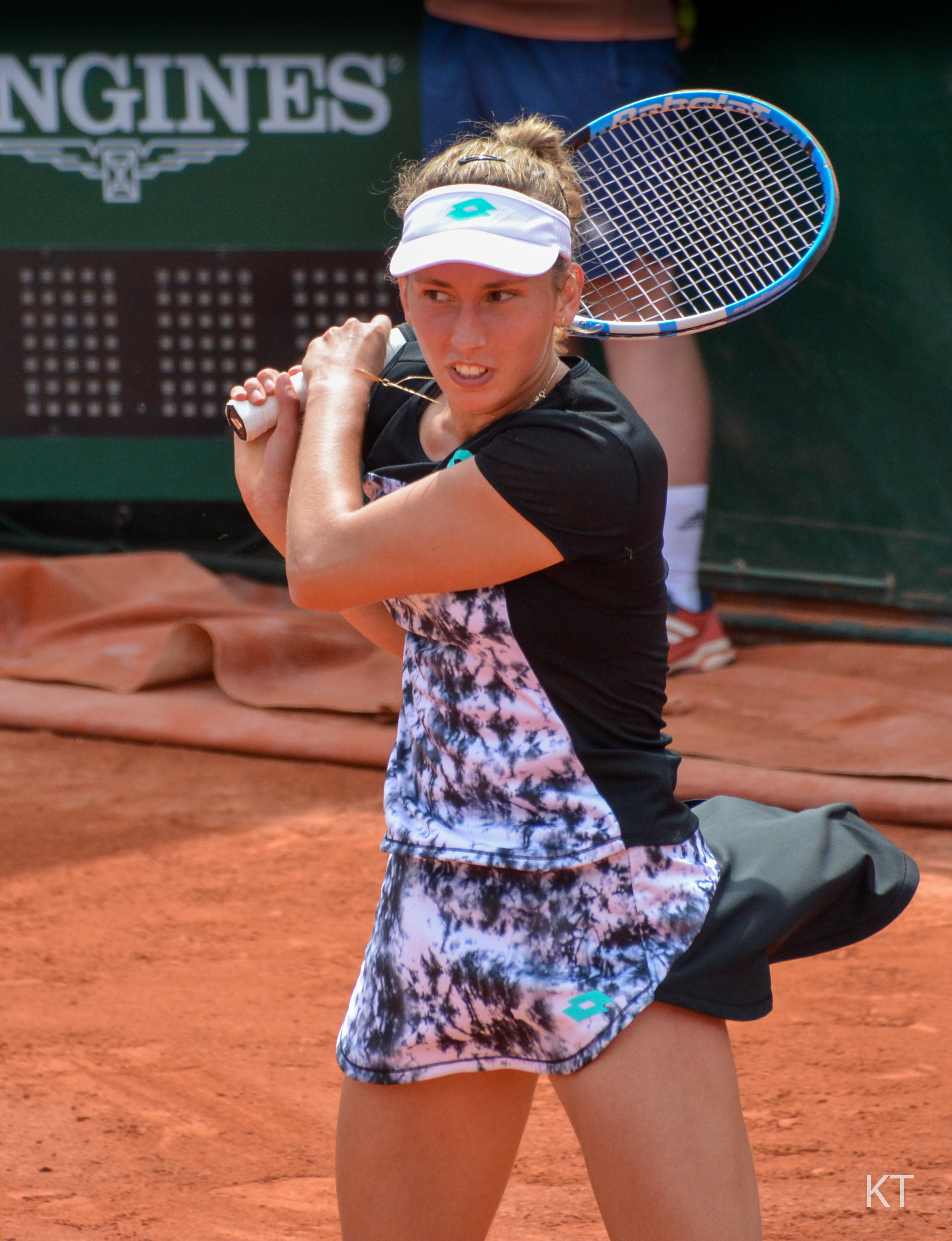 2nd round v Heather Watson. Day 5 of Roland Garros 2018.